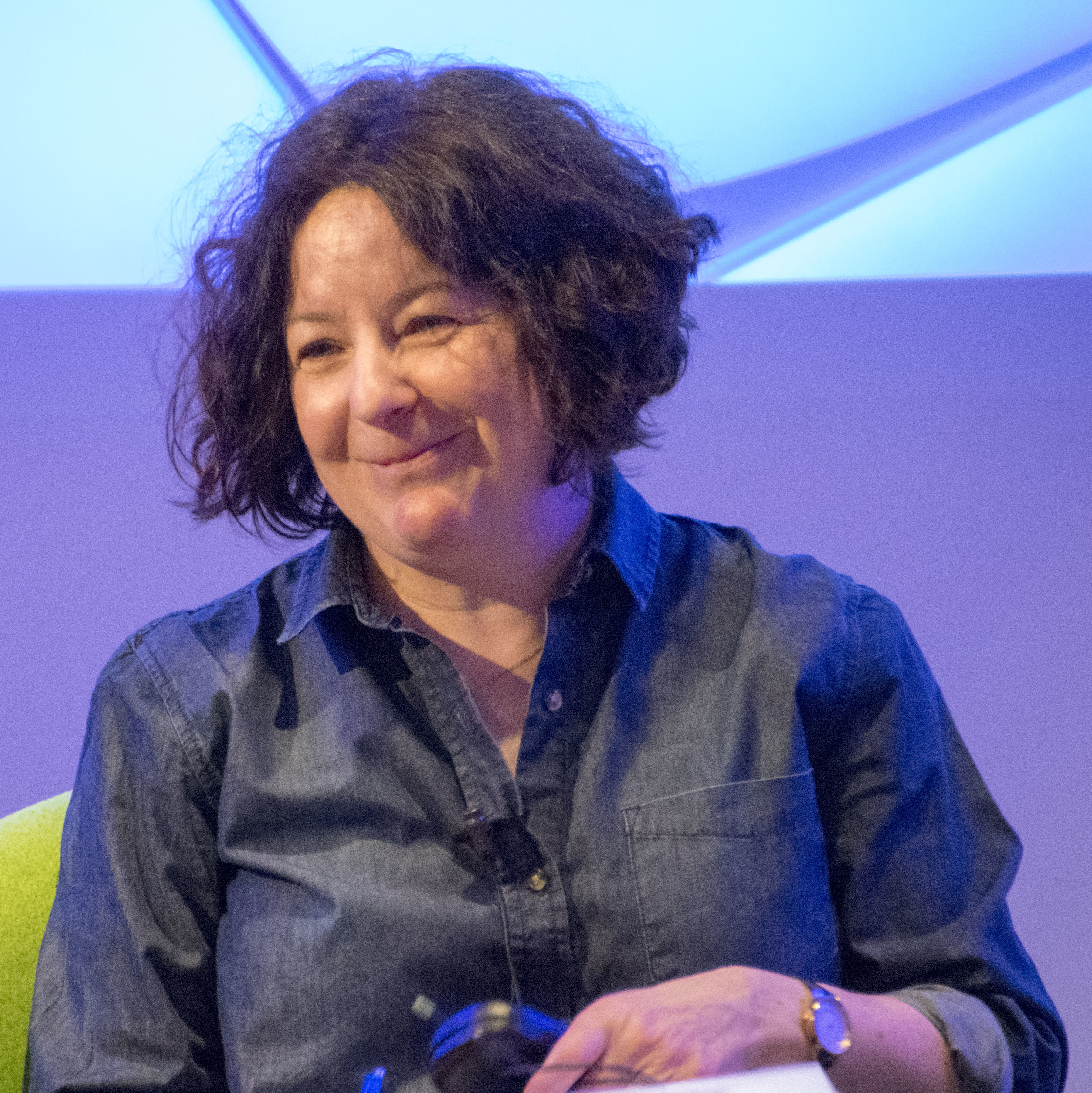 Inclusion Convention Institutional Sexual Harassment London with Jane Garvey BBC radio 4 Woman's Hour Presenter